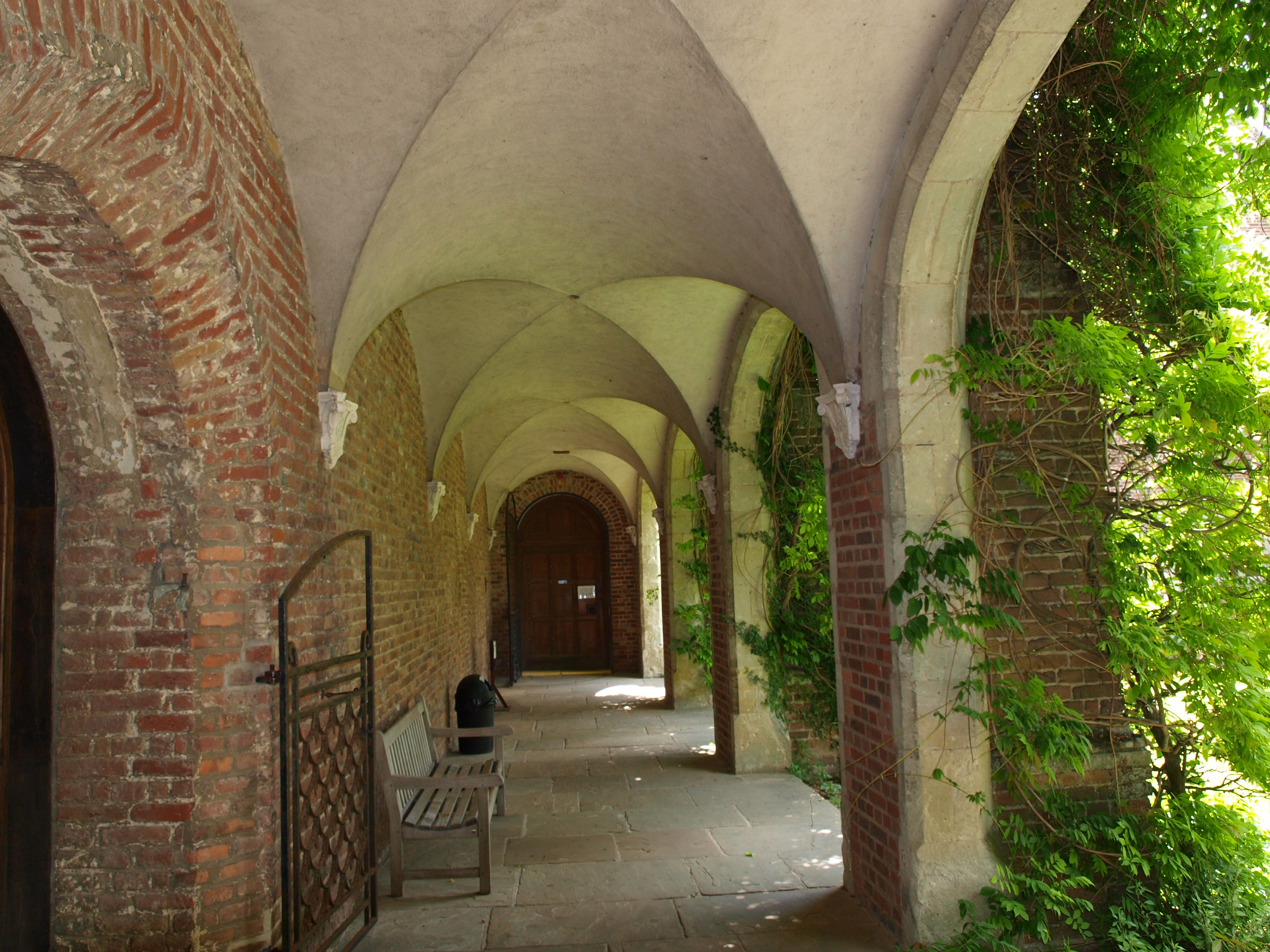 Interior corridor, Herstomonceux Castle